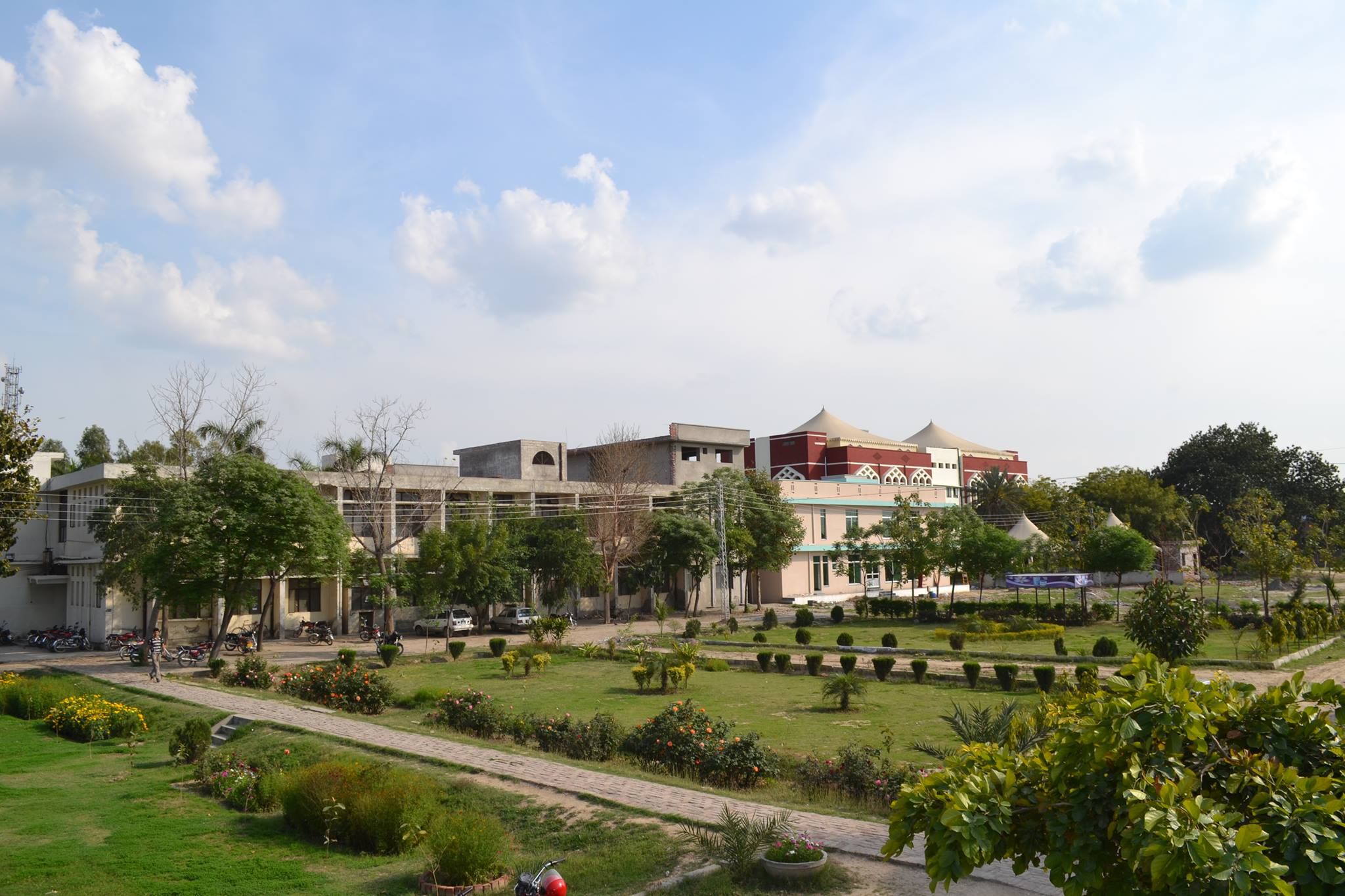 Licensing Policy about Wikipedia This is to clarify that all contents and images of this website can be used with reference of this website on Wikipedia under the free license: Creative Commons Attribution-Share Alike 4.0 International.